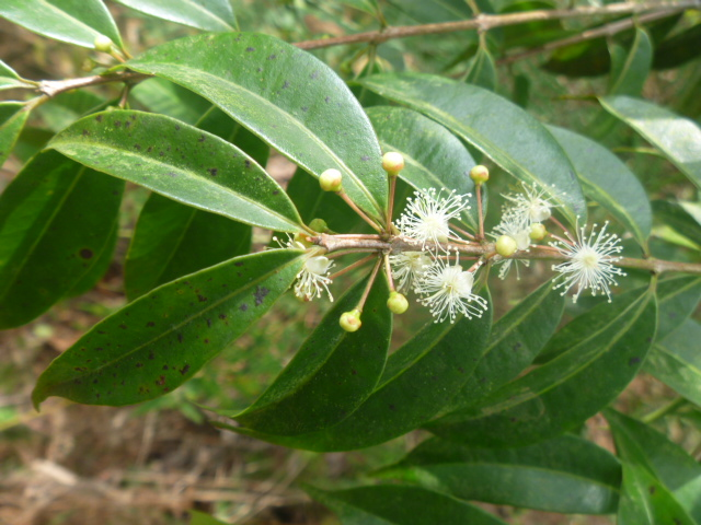 This picture show a branch of Eugenia flavescens